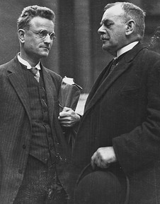 Psychical researchers Rudolf Lambert and Perovsky Petrovo Solovovo in 1927.